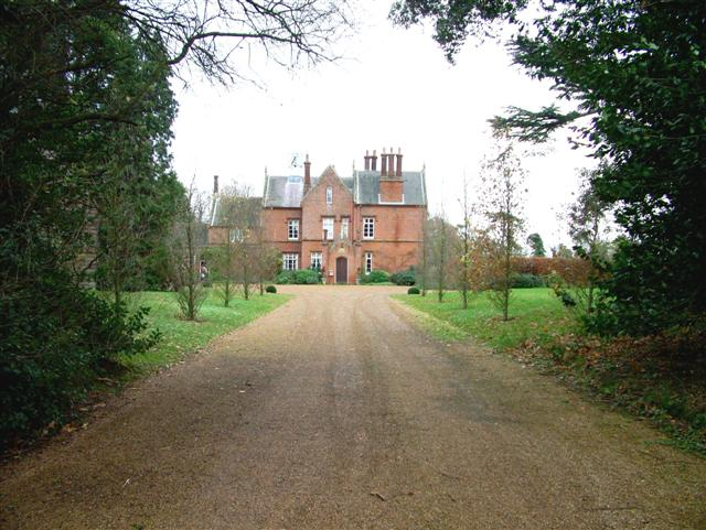 Cedar House, Beighton Apart from the church this is the largest house in the village of Beighton.